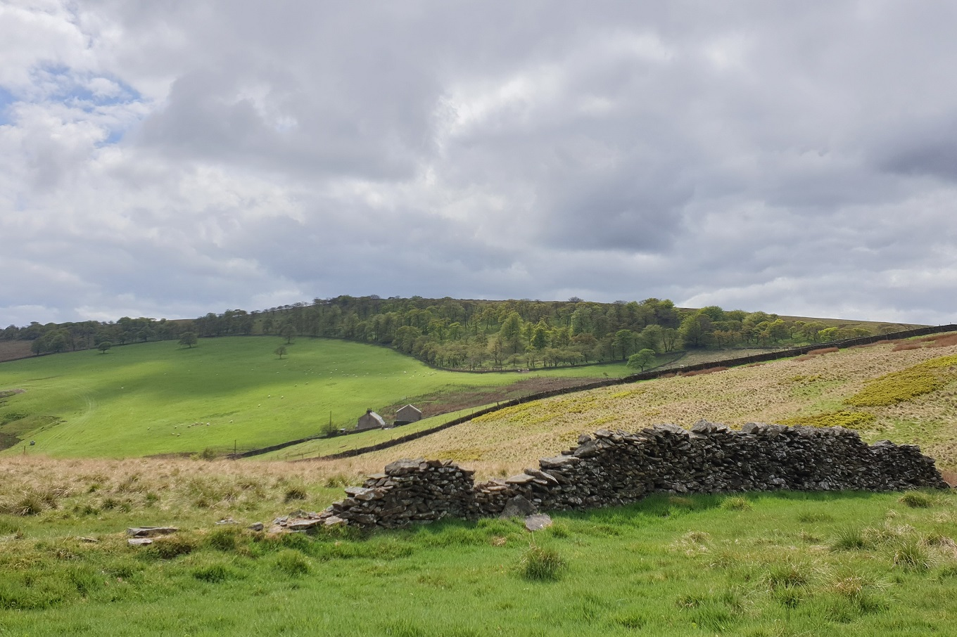 Burbage Edge view from the east, near Buxton in Derbyshire